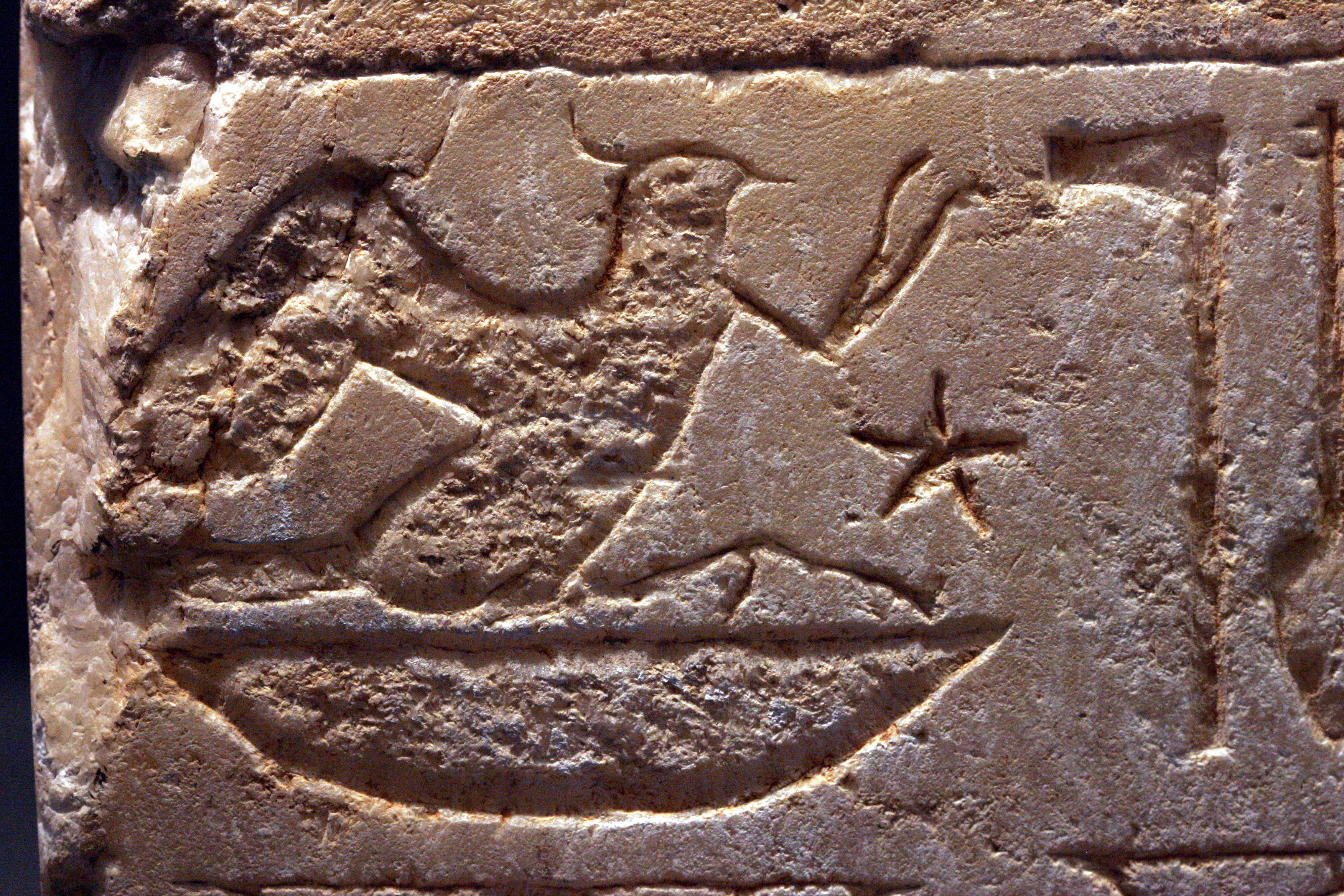 a phonetic element in hieroglyphs: "Everybody-(basket) gives-(star-to praise)-Praise-[the Rekhit bird, signifying also, All Peoples, praising])"--"All Peoples give Praise", or "All the people give Praise"